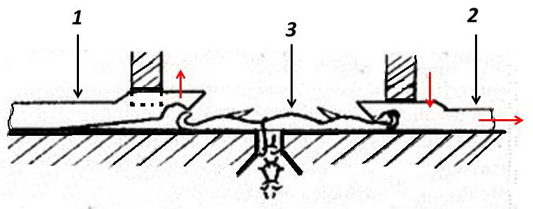 Purl needle transfer on links-links (purl) machine. 1: delivering slider, 2: receiving slider, 3: purl needle